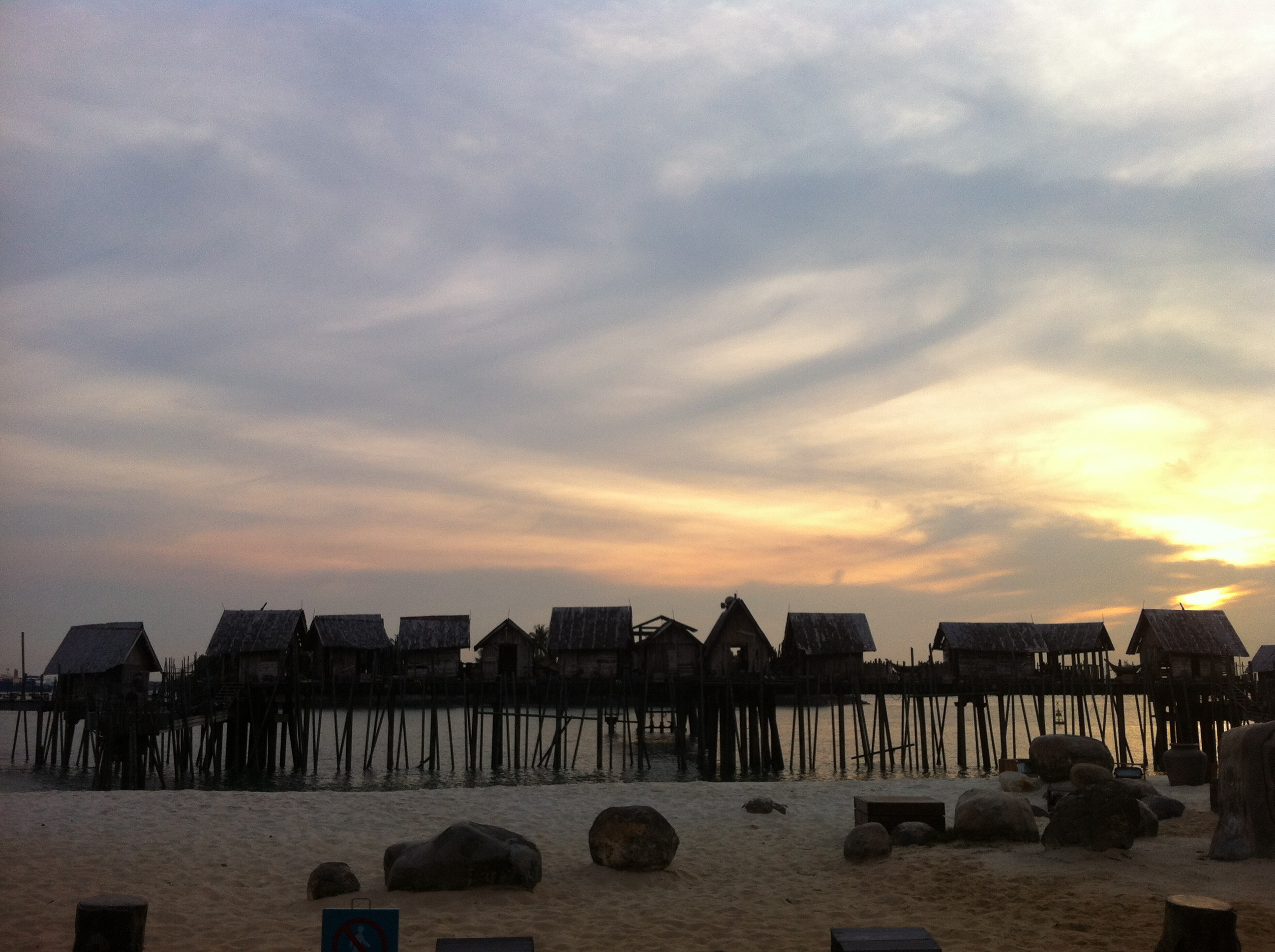 Multimedia show Songs of the Sea's stage.